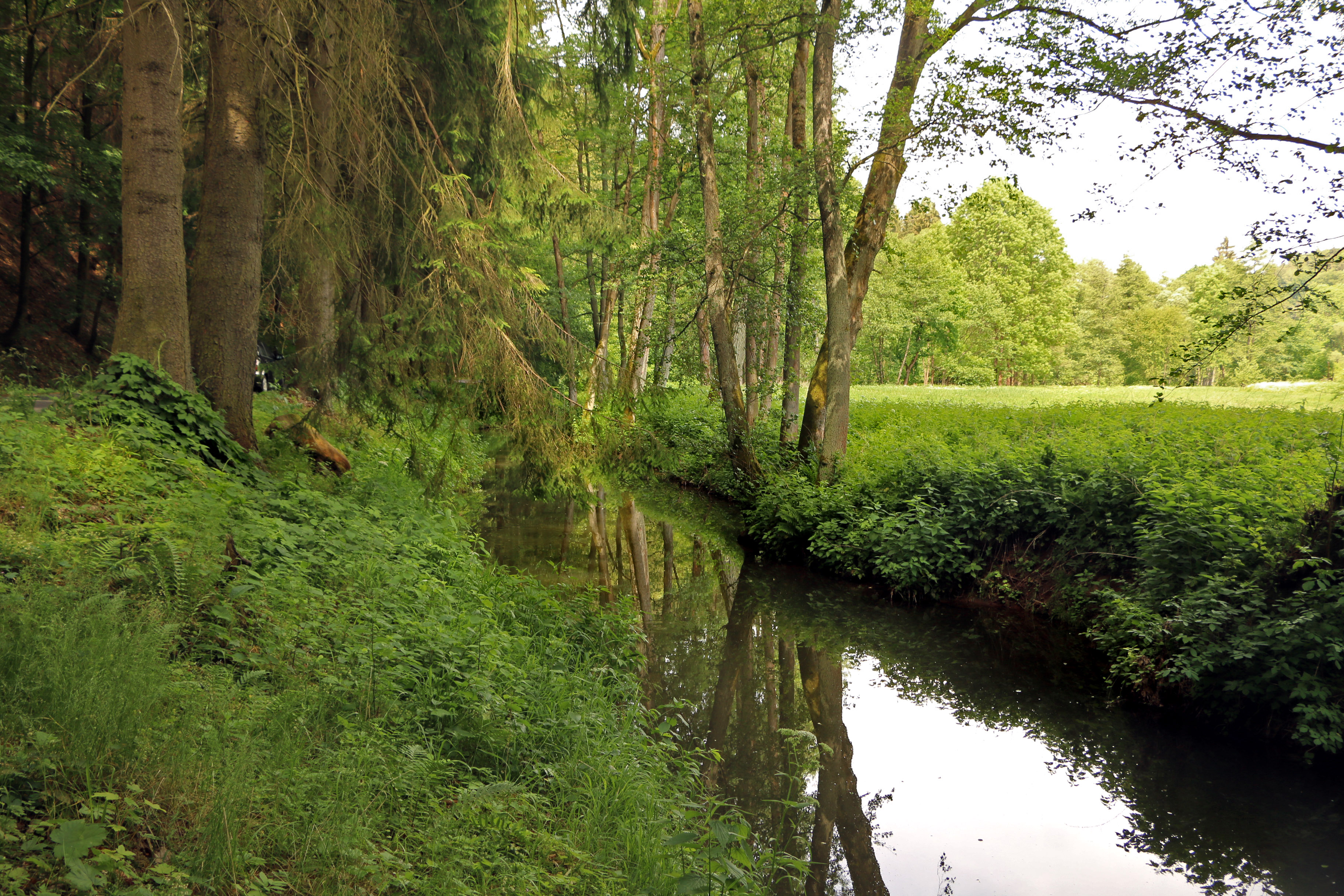 Javorka river in Dolní Mezihoří, part of Holovousy, Czech Republic.